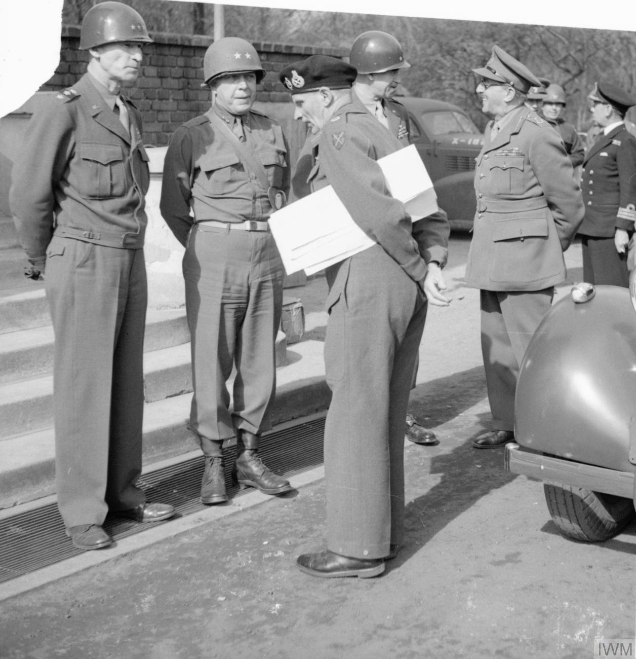 The British Army in North-west Europe 1944-45- the Prime Minister in Germany Field Marshal Sir Bernard Montgomery talking with Lieut General Simpson, GOC 9th Army and Major General John Anderson, 16th Corps. Behind are General Bradley and Field Marshal Sir A.F. Brooke.